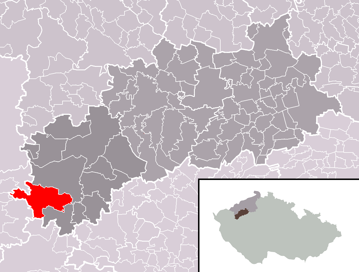 Location of Lubenec municipality within Louny District and administrative area of Podbořany as a Municipality with Extended Competence.